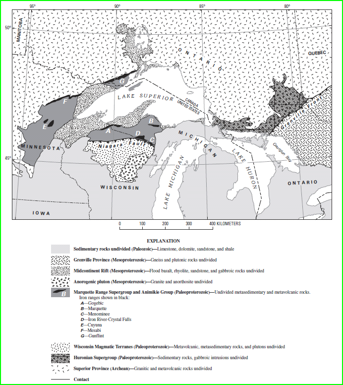 Animikie Group, Marquette Range and Huronian supergroups